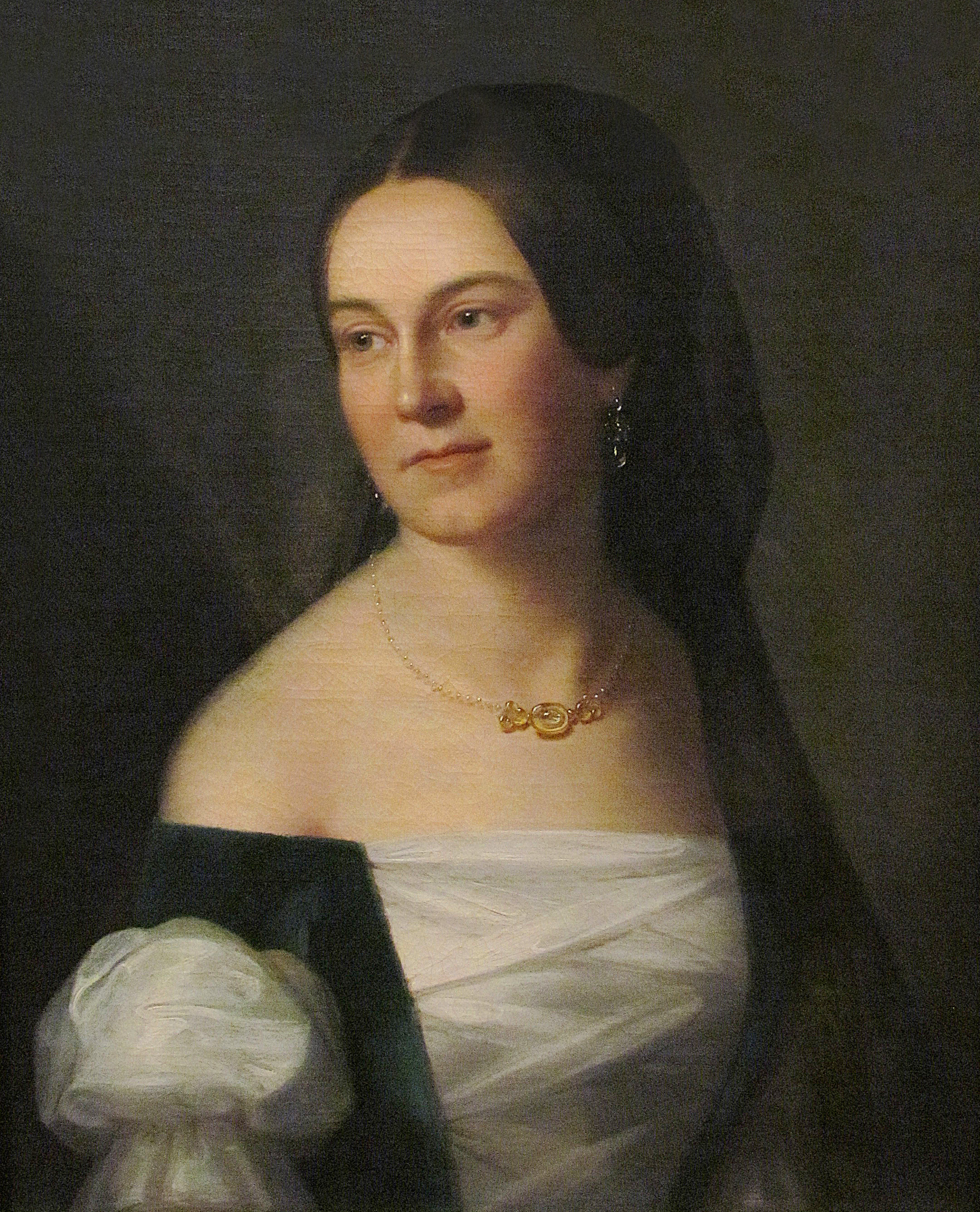 Konstantin Danil, portrait of Mrs. Vailgling, after 1840, National museum of Serbia